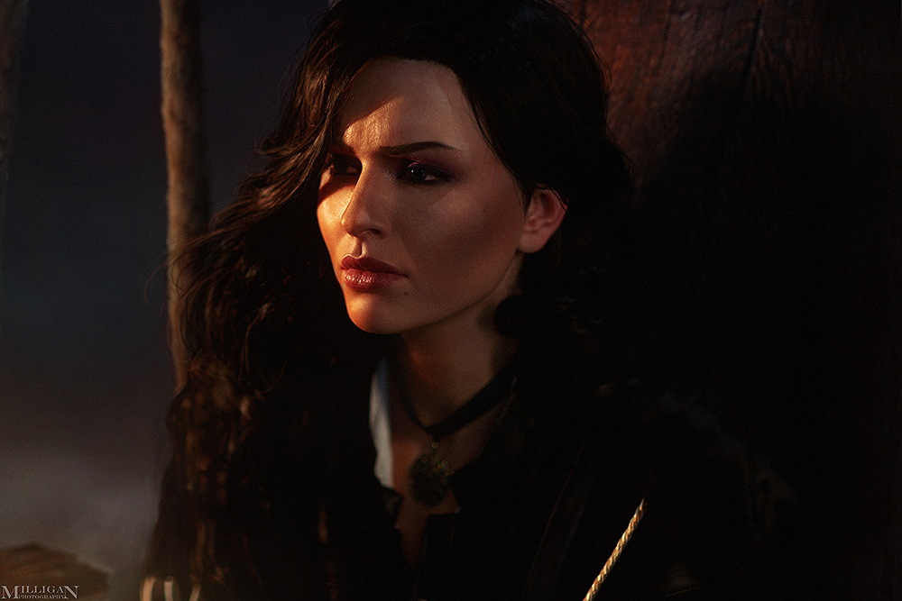 Yennefer of Vengerberg cosplay (The Witcher 3: Wild Hunt). Photographer: Victoria Romanova a.k.a. Milligan Vick. Cosplayer: Galina Zhukovskaya.